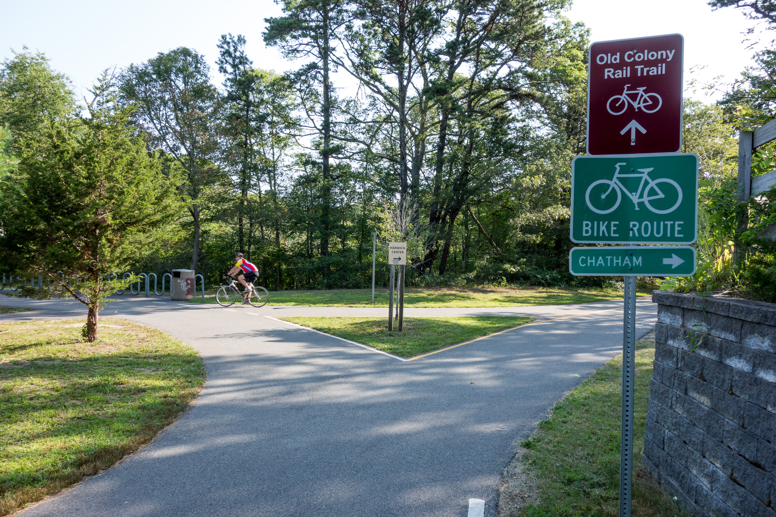 Cape Cod Rail Trail, at the bike rotary in Harwich.